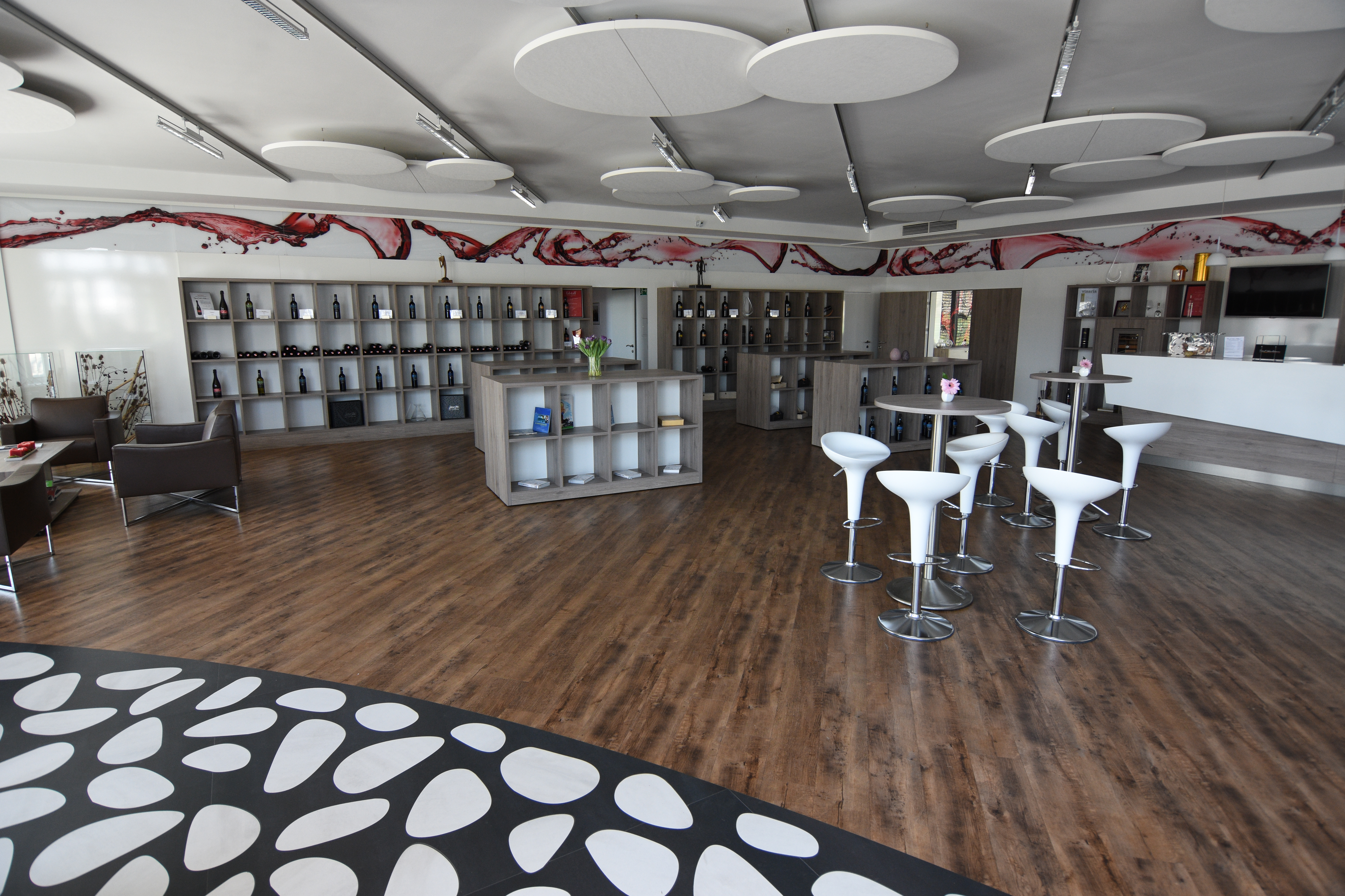 Paul Kerschbaum